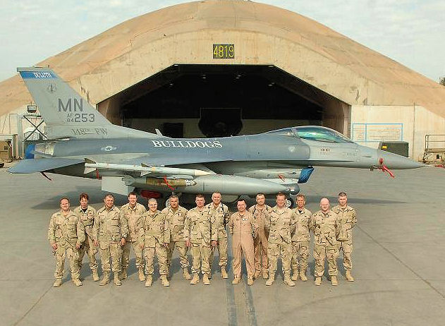 In front of F-16C block 25 #84-1253 from the 179th FS, airmen from the 148th FW pose for a 'family' photograph at Balad AB, on March 20th, 2007. Of the more than 250 Minnesota guardsmen deployed to the 332nd Air Expeditionary Wing, 41 are related. [USAF photo by A1C. Nathan Doza]